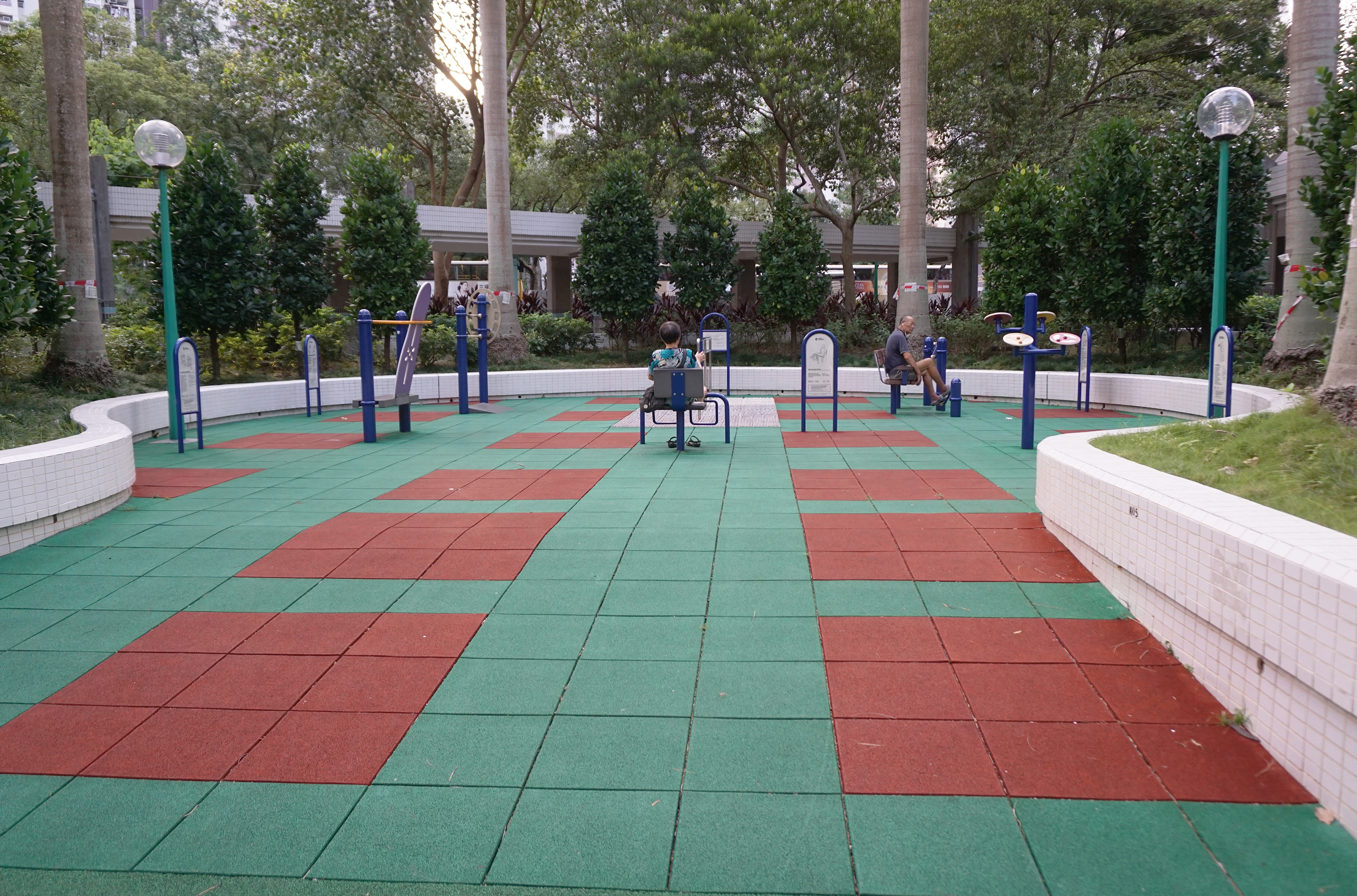 King Shing Court in Fanling, Hong Kong.